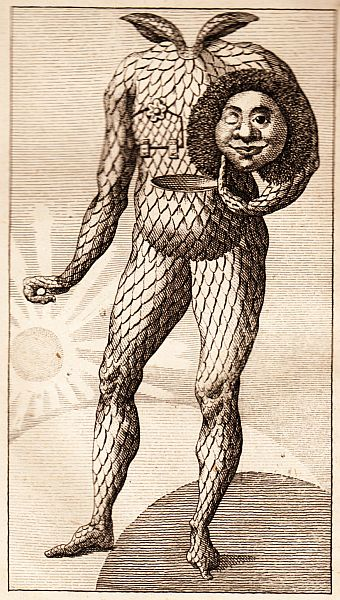 Picture from an old Dutch edition of Munchhausen (1827)